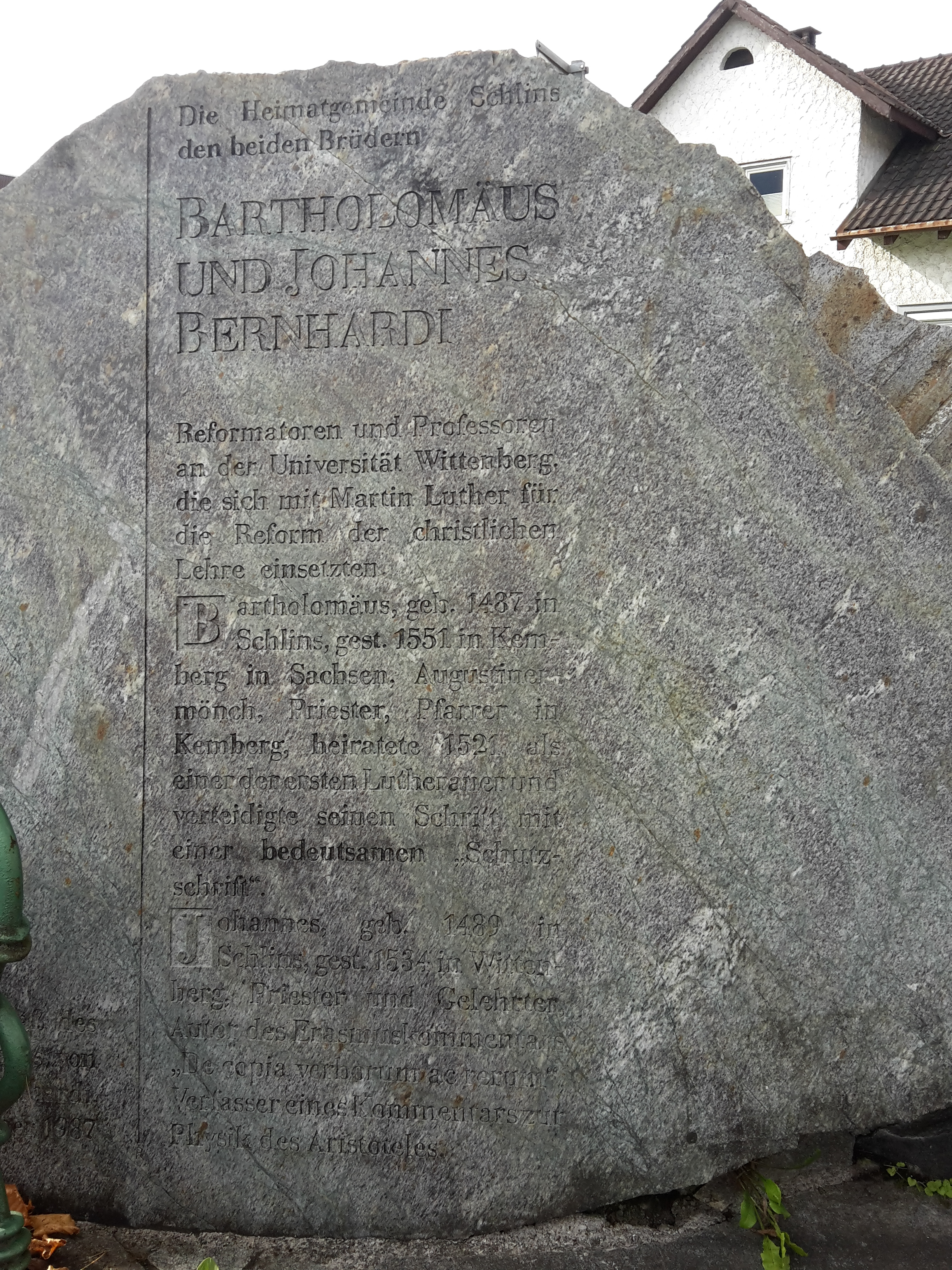 Monument to Bartholomew Bernhardi (1487-1551) and Johannes Bernhardi (1490-1534) in Schlins, Vorarlberg, Austria. Inscription: The hometown Schlins for the two brothers Bartholomew and Johannes Bernhardi Reformers and professors at the University of Wittenberg who worked with Martin Luther for the reform of the Christian doctrine. Bartholomew, b. In 1587 in Schlins, d. 1551 in Kemberg in Saxony, Augustinian monk, priest, pastor in Kemberg, married in 1521 as one of the first Lutherans and defended his step with a significant "protective script". Johannes, b. 1489 in Schlins, died 1534 in Wittenberg, priest and scholar, author of the Erasmus commentary "De copia verborum ac rerum", author of a commentary on the physics of Aristotle.